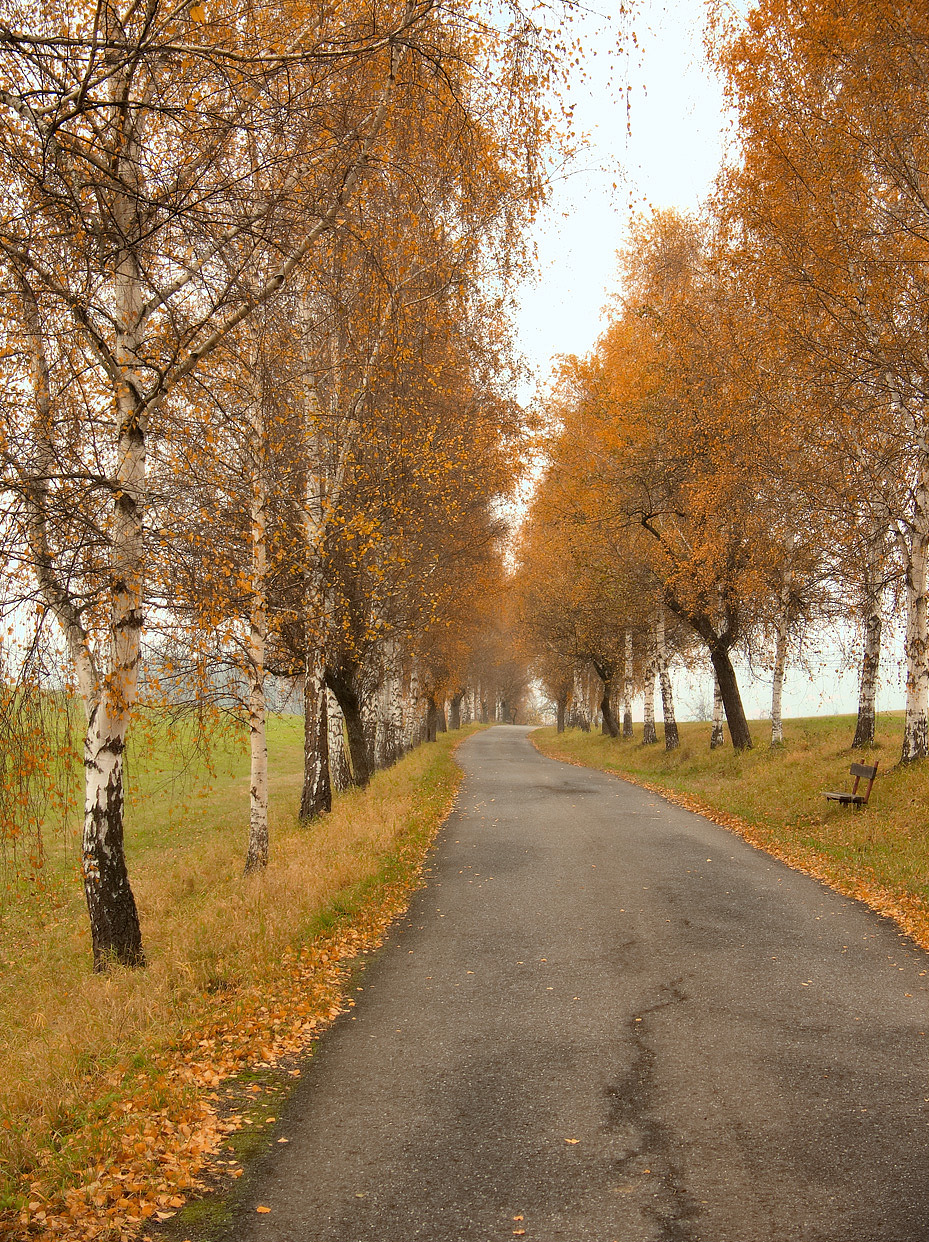 Road between Hodkovice and Sychrov